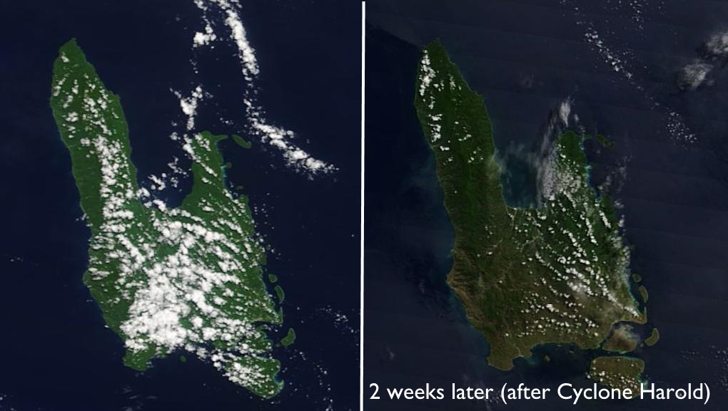 Before (left) of Espiritu Santo and Malo Island 2 weeks before Cyclone Harold, and (right) 2 weeks after the cyclone ripped through the island country, showing the lush landscape heavily deforested.